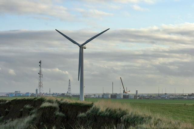 South of Dimlington High Land, Out Newton, East Riding of Yorkshire, England.The most easterly of the seven wind turbines is shown here above the eroding cliff. And behind, in the distance, is the Easington North Sea gas terminal.